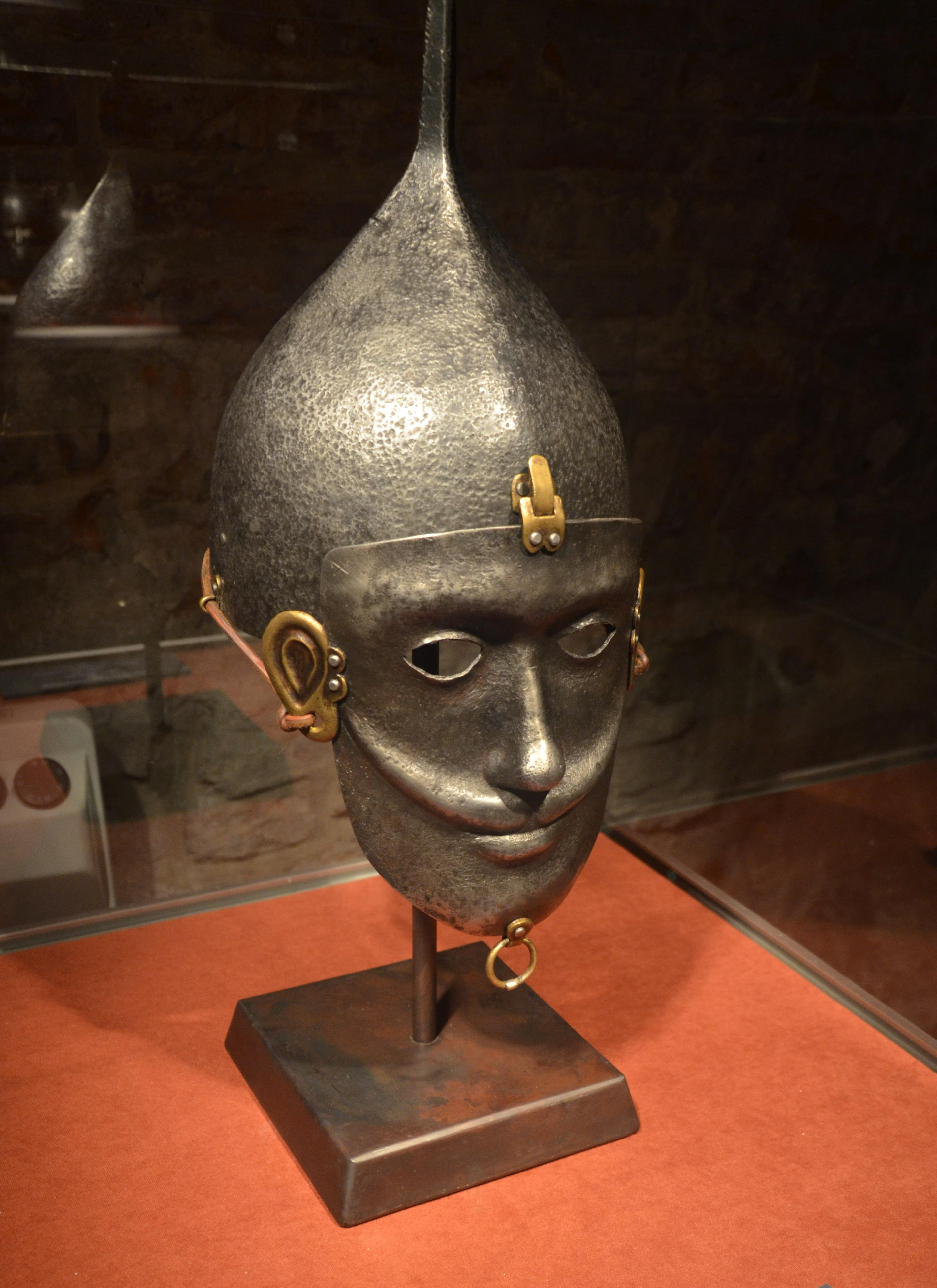 Replica Kipchak style helmet